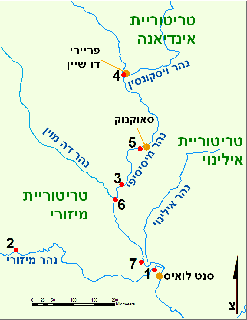 Map of the upper Mississippi River during the War of 1812